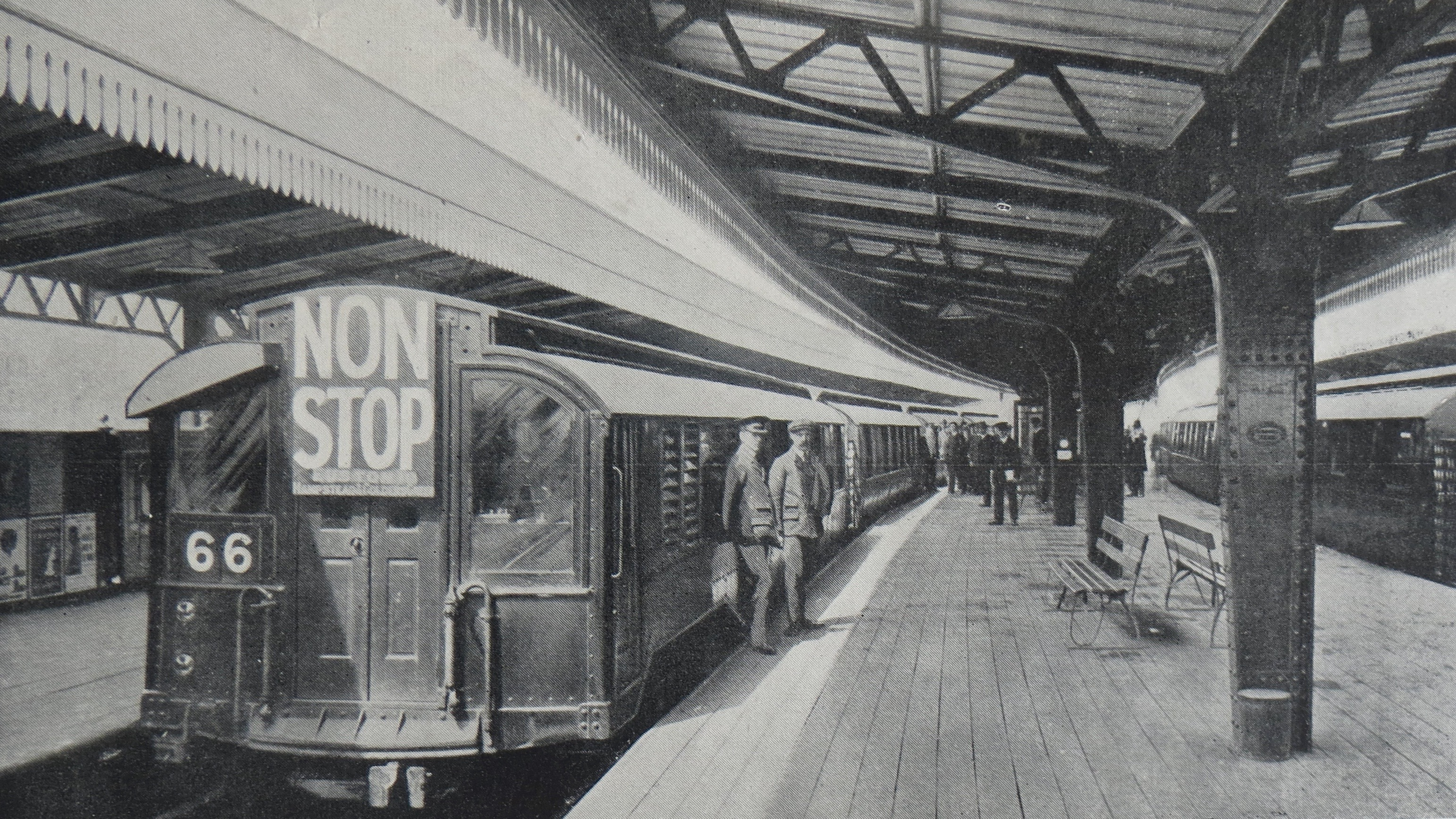 13 November start of service. 8 morning, 9 evening and 2 'theatre' trains didn't stop between Hampstead and Euston. The last non-stop trains were in 1924.